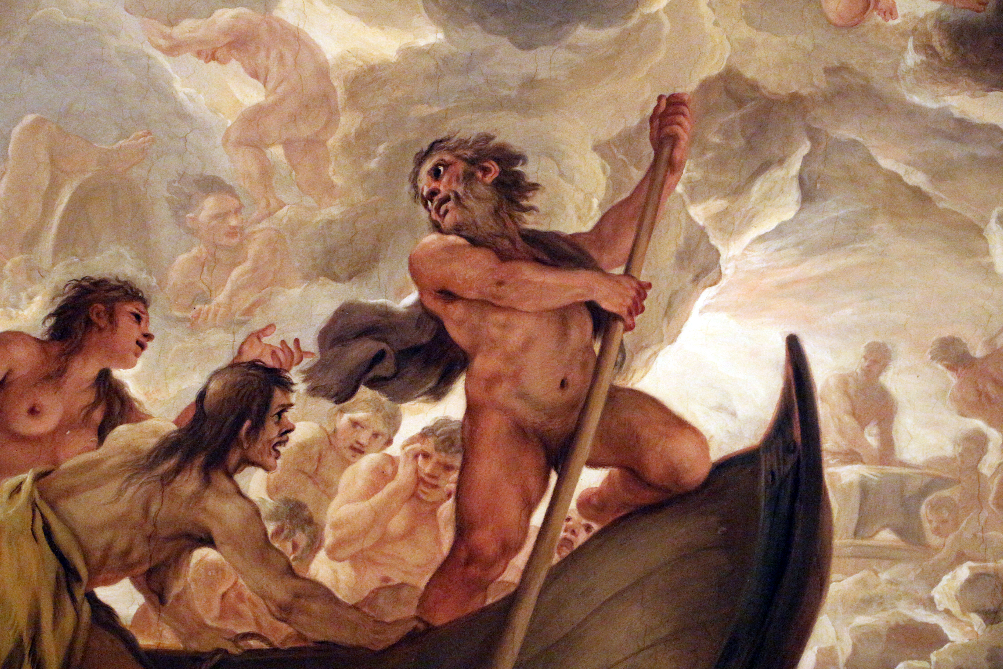 Apotheosis of the Medici family by Luca Giordano